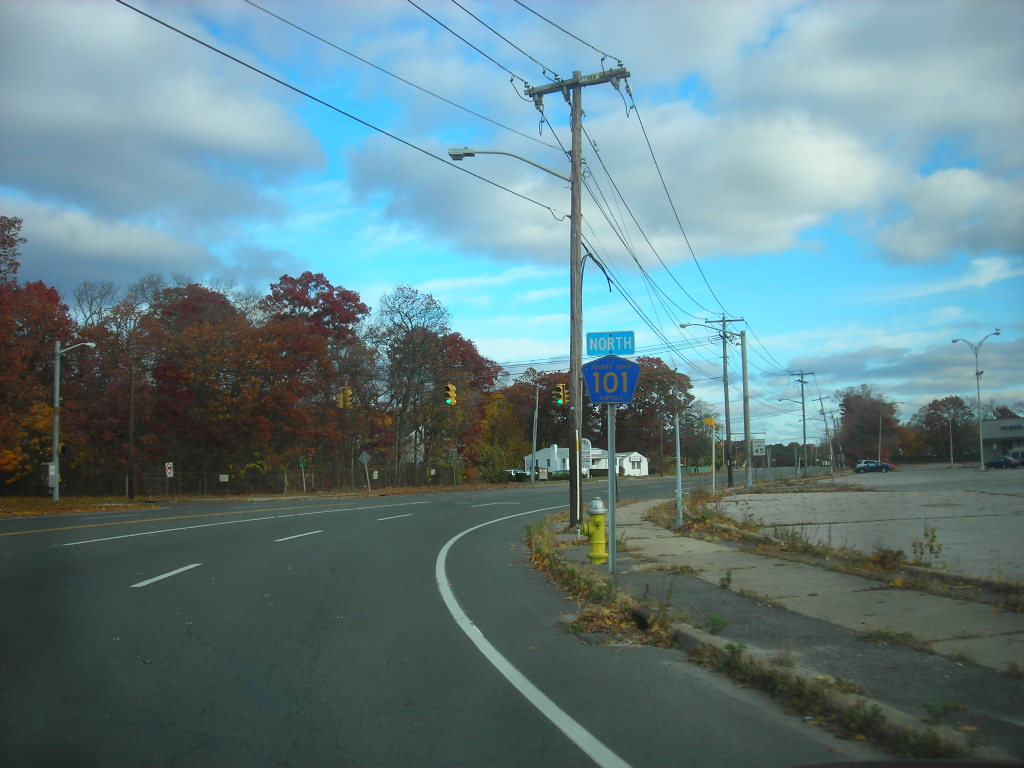 Suffolk County Route 101 (Sills Road) heading northward through Yaphank. The old style Suffolk County signage is noticeable.